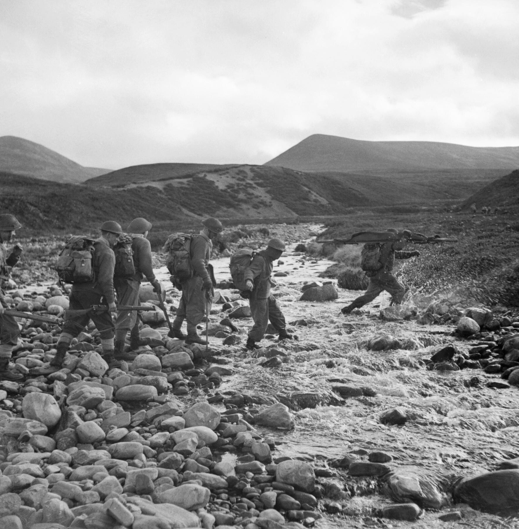 Men of 5th Battalion, The Highland Light Infantry, training in the mountains near Inverness in Scotland, 22 October 1942. Men of 5th Battalion, The Highland Light Infantry, make thier way across a fast running stream during training in the Monadhliath Mountains, Inverness, Scotland.